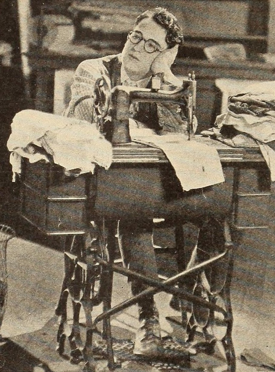 Still from Girl Shy featuring Harold Lloyd